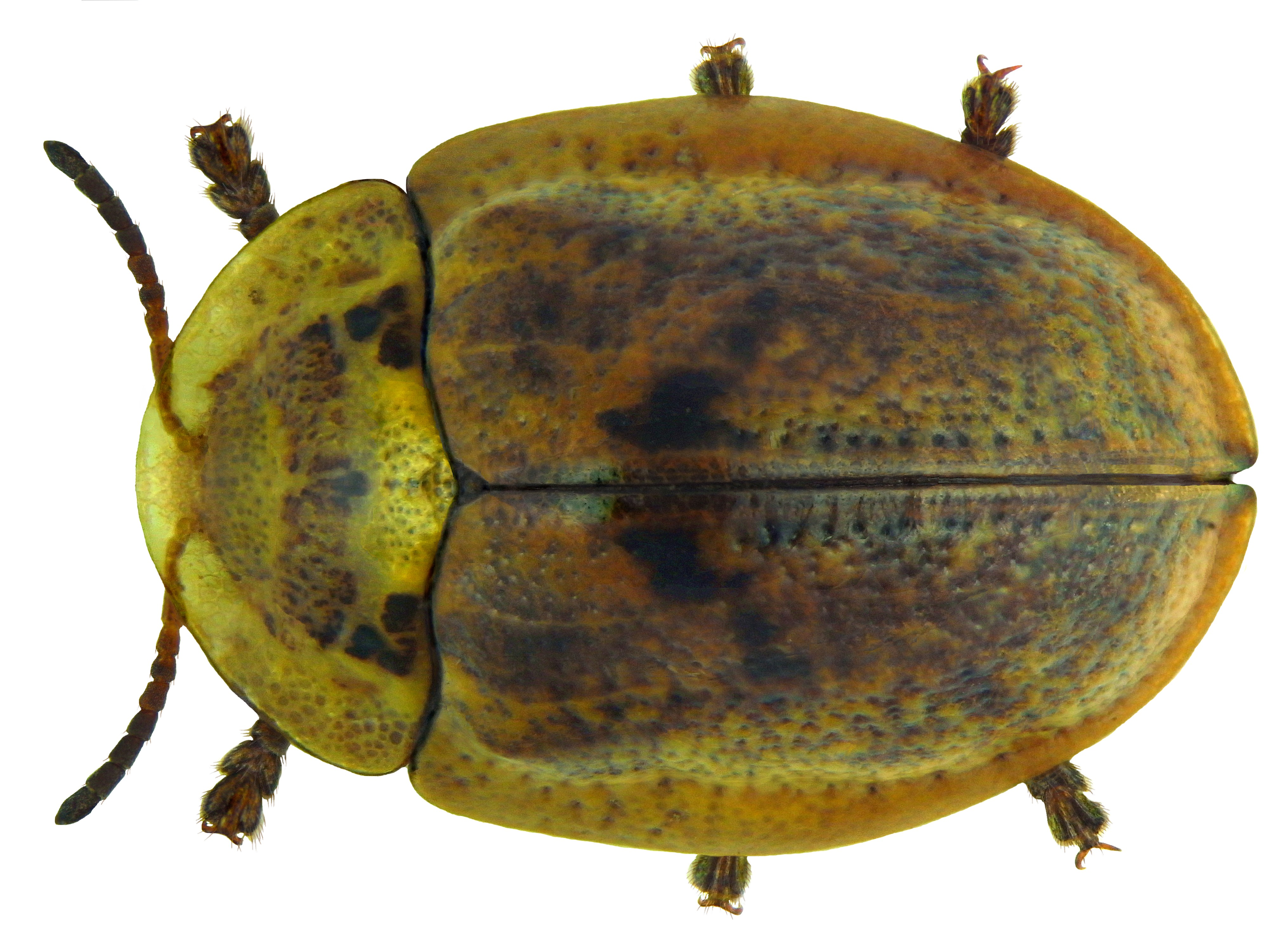 Physonota alutacea (Boheman, 1854) Familie: Chrysomelidae Groesse: 12,0 mm Fundort: Costa Rica, Peninsula de Nicoya, Playa Tambor leg. U.Schmidt, 1996; det. L.Borowiec, 2011 Photo: U.Schmidt, 2011